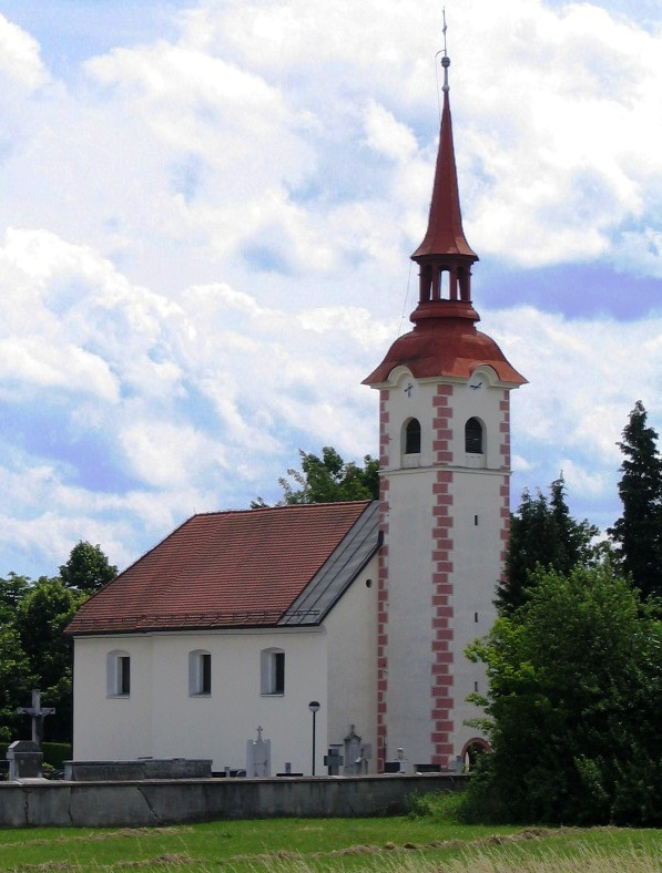 Saint George's Church in Stožice, Ljubljana, Slovenia.